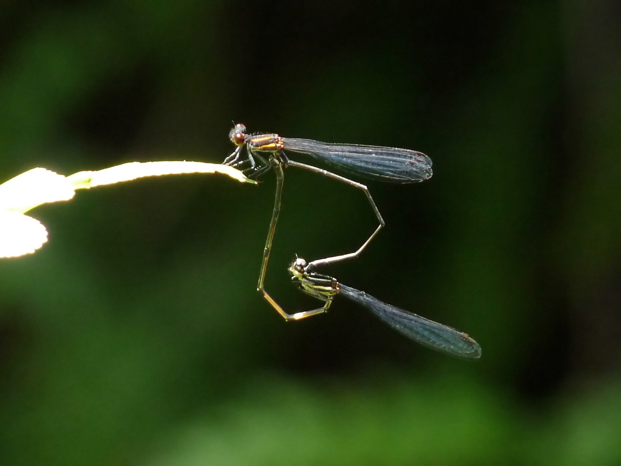 Prodasineura verticalis is a damselfly in Protoneuridae (Bambootails or Threadtails) family. Its commonly known as the Red-striped Black bambootail. The Black bambootail is medium size damselfly, its hindwings are about 19–20 mm and the abdomen about 30 mm. The male of this damselfly is mostly black with bright orange stripes on its thorax and small yellow spots on the abdomen. The pterostigma or the wing spot is diamond-shaped and is dark brown in colour. The female is similarly coloured to the male but her thoracic stripes are paler and more yellowish. Male Black bambootails are often seen hovering over fast flowing streams when they are rather difficult to see. They are also found along the banks of large ponds and rivers. They usually are sitting among emergent water plants. The oviposition takes place on vegetation or on submerged roots in shallow running water, with the pair in tandem.